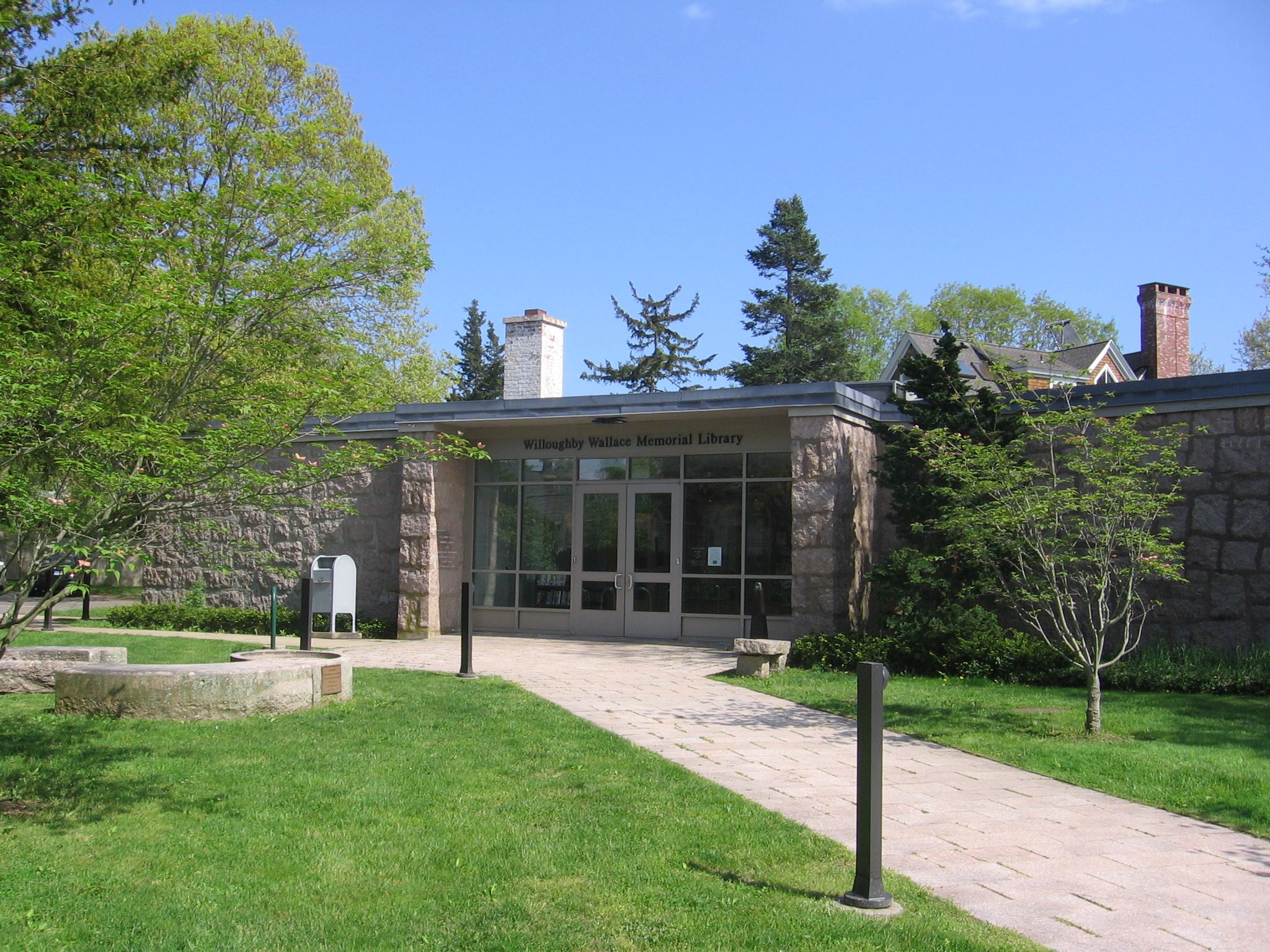 The Willoughby Wallace Memorial Library in the Stony Creek section of Branford, Connecticut, USA. View looking east-southeast.